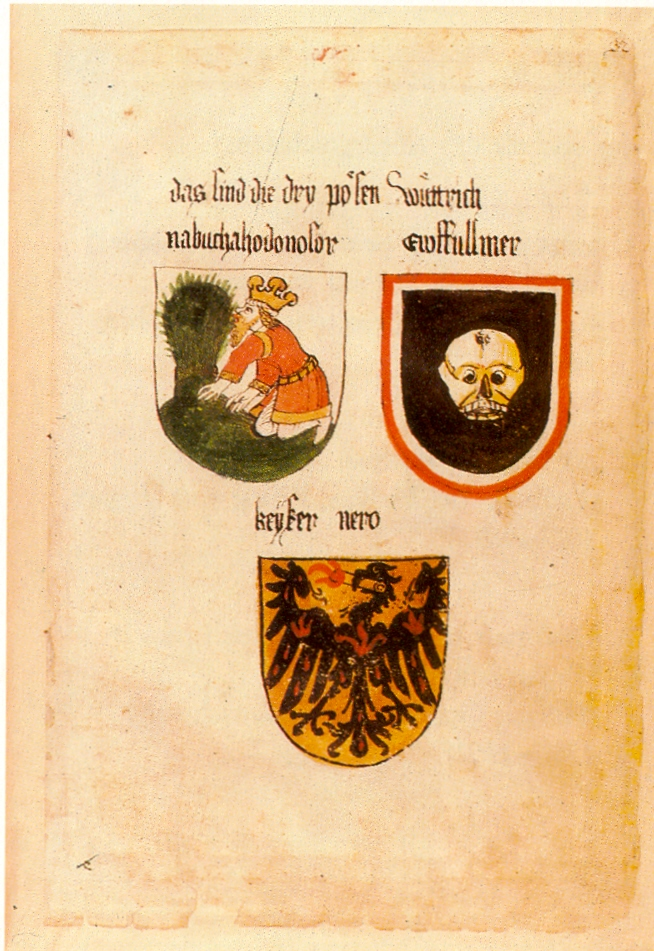 Attributed arms of three Biblical/historical villains